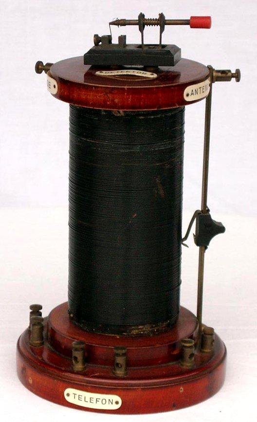 Ernst Jahnke crystal radio receiver, ca. 1924-1926. The radio is tuned to different stations by moving the slider (right) up or down the tuning coil. The device at top is the cat's whisker detector.